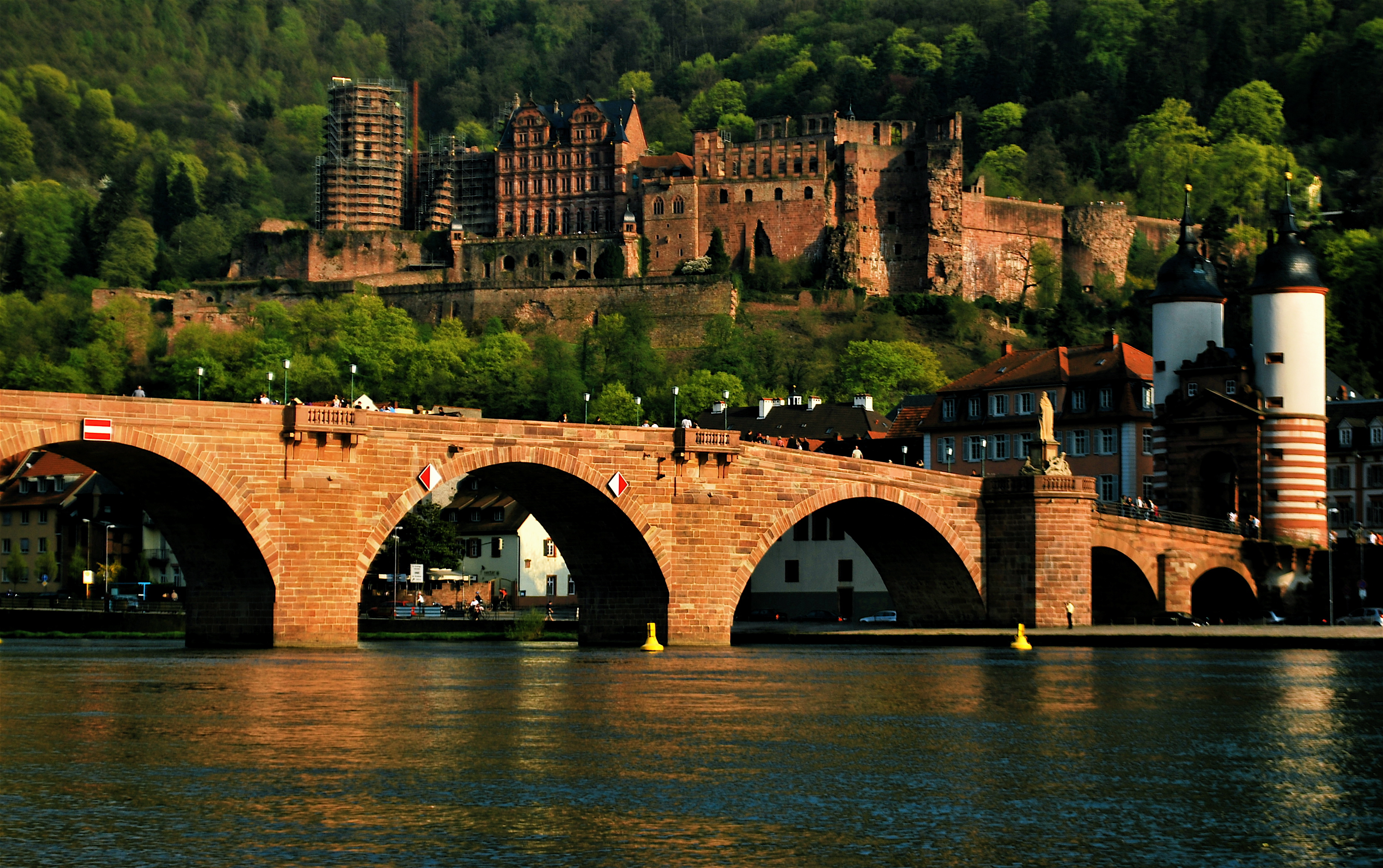 Heidelberg Castel and Bridge, Germany.